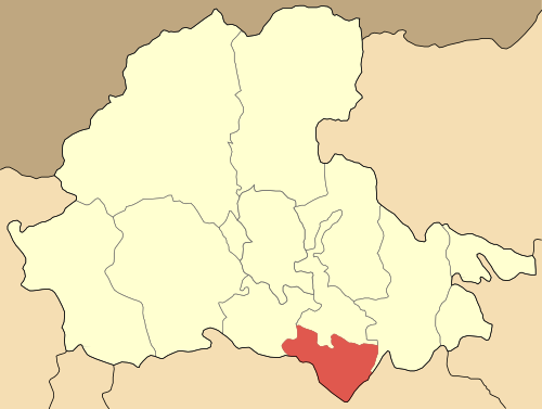 Locator map of Kryas Vrysis municipality (Δήμος Κρύας Βρύσης) at Pellas perfecture, Macedonia, Greece.